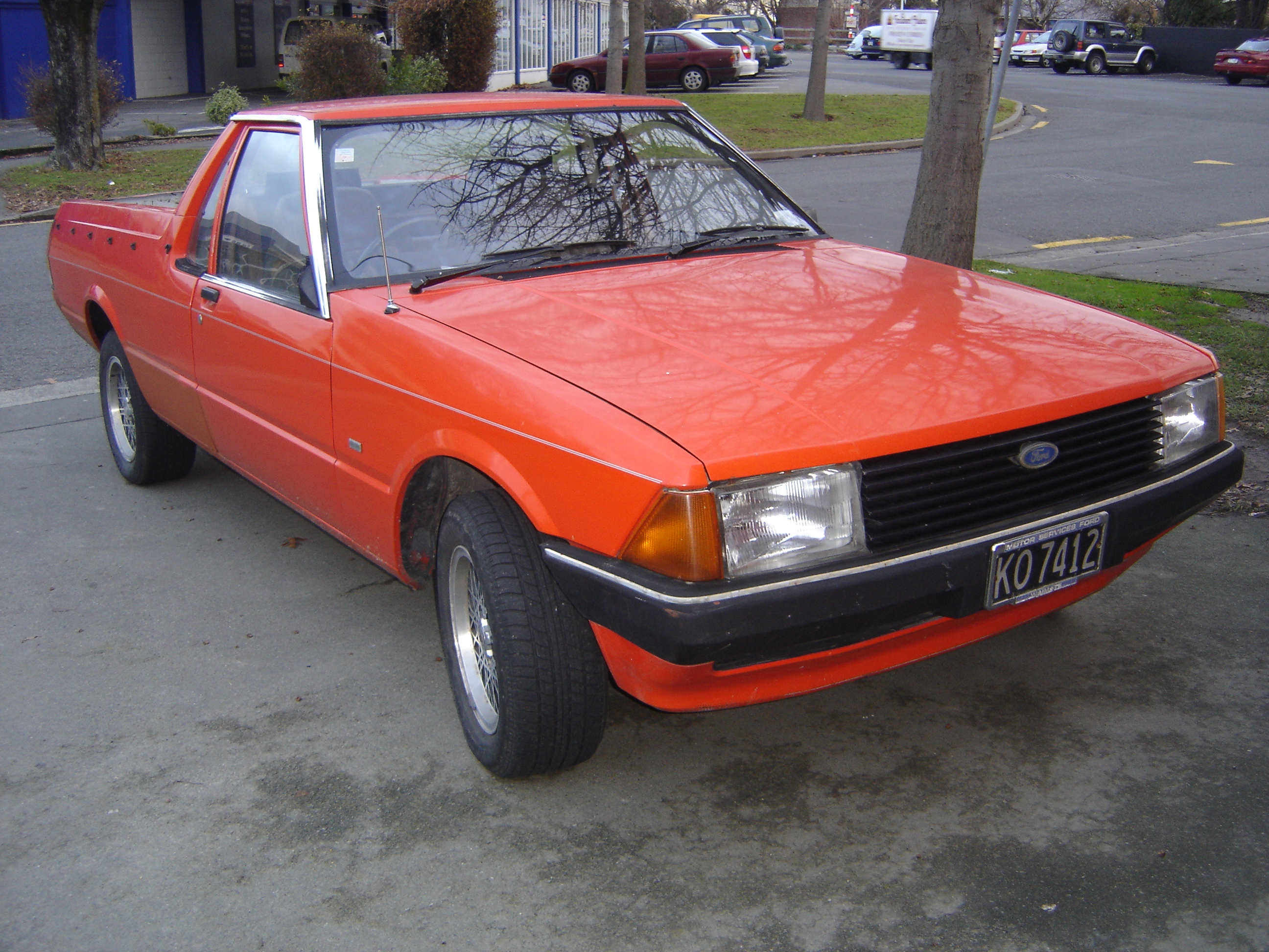 1982 Ford XD Falcon utility, photographed in Christchurch, New Zealand.